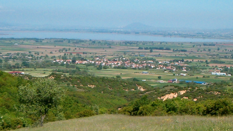 The village Lagkadikia as can be seen from south-east. Lake Koroneia at the background.